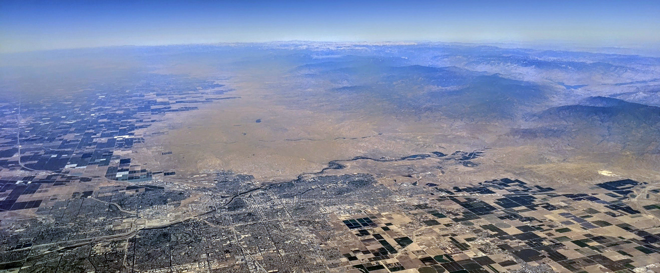 Aerial view of Bakersfield, California, and vicinity, showing the Kern River coming from the southern Sierra Nevadas